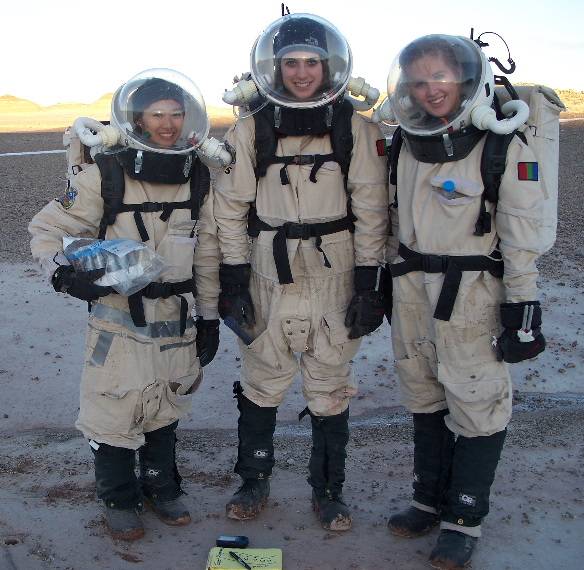 three MDRS astronauts from crew 73